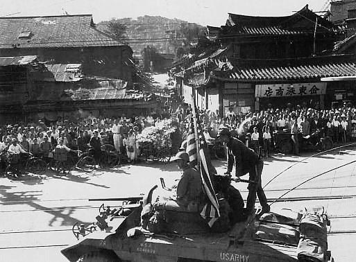 US Army in Korea under Japanese Rule